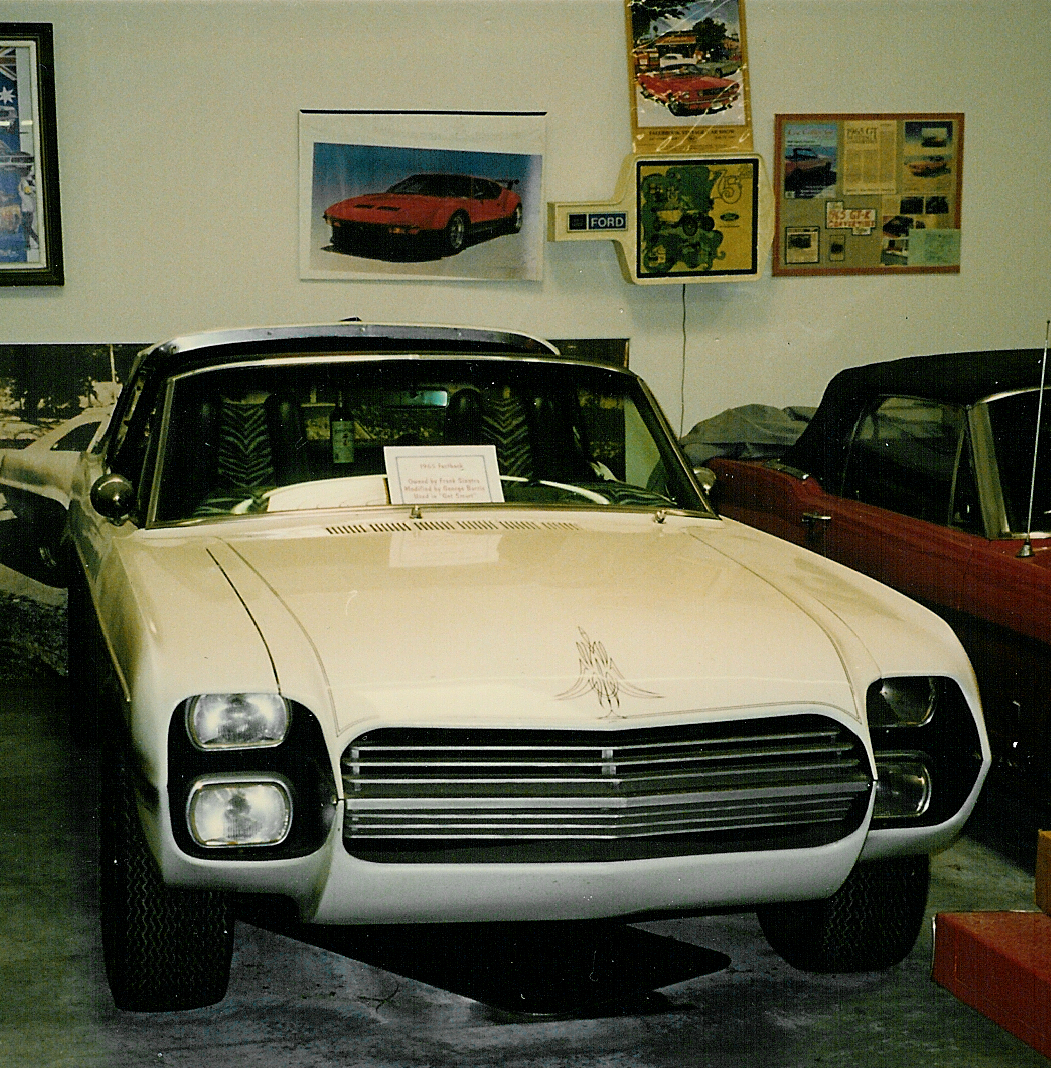 65 Mustang modified for the movie " Marriage on the Rocks 1965" starring Frank Sinatra, Dean Martin